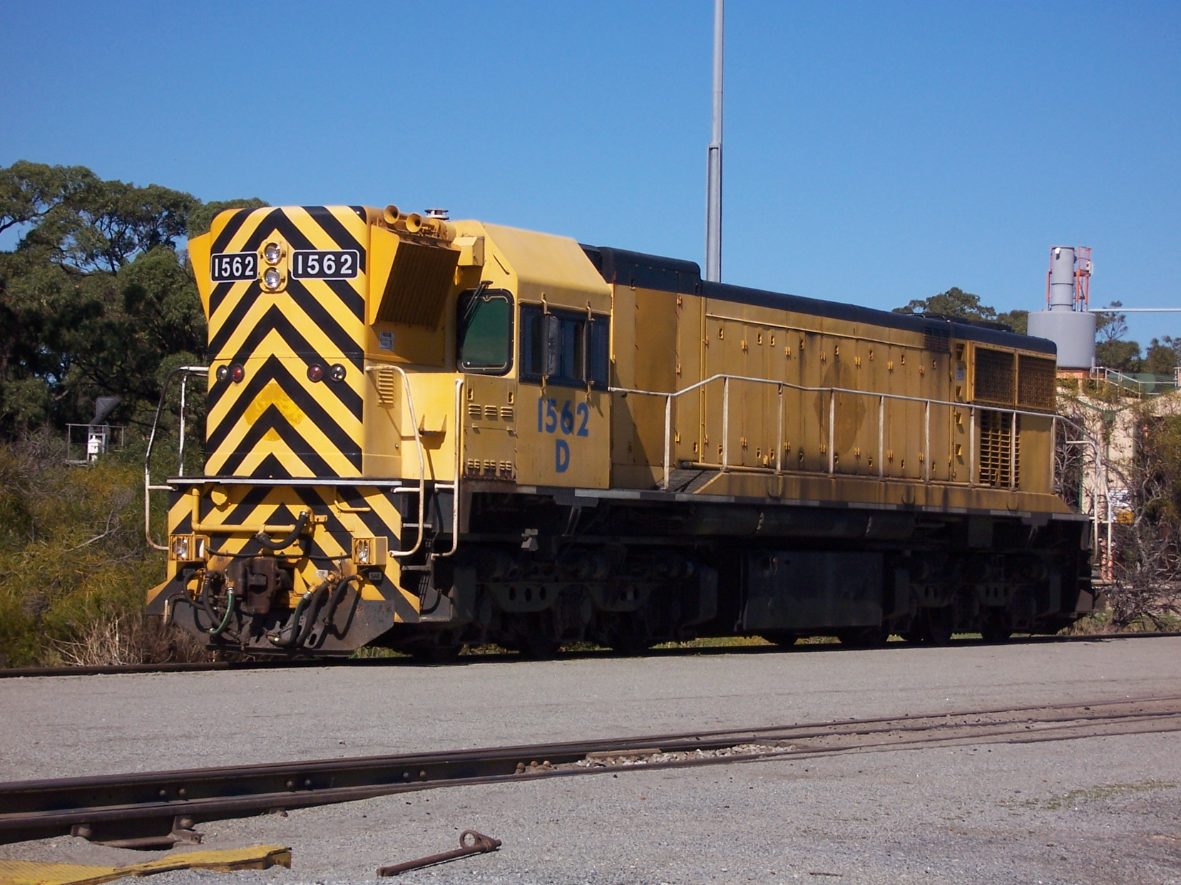 Ex-WAGR P class diesel locomotive no. D1562 (still in Westrail yellow livery) at Kwinana Yard, Western Australia. Photograph by Daryle Phillips.